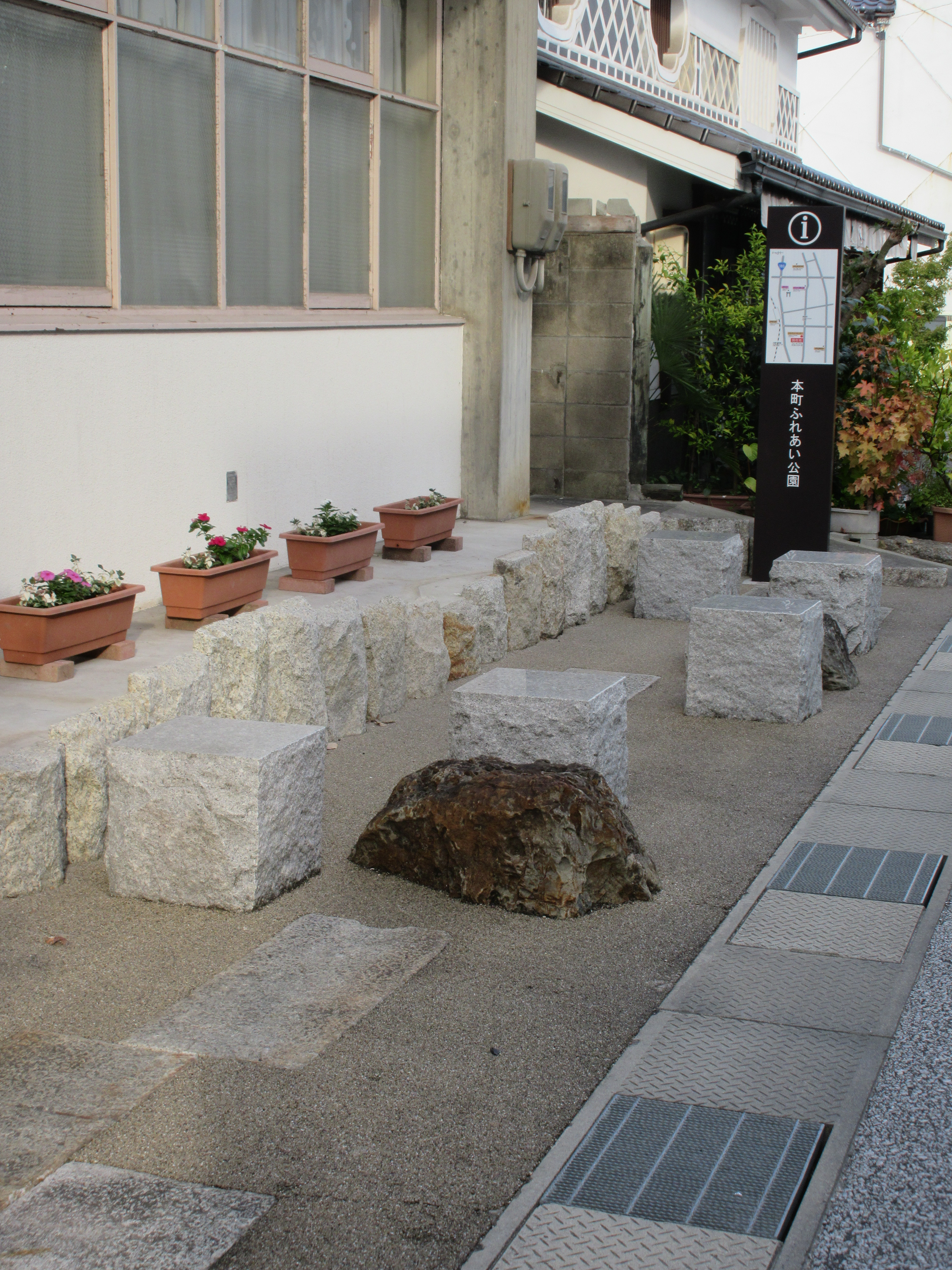 tamachi small park